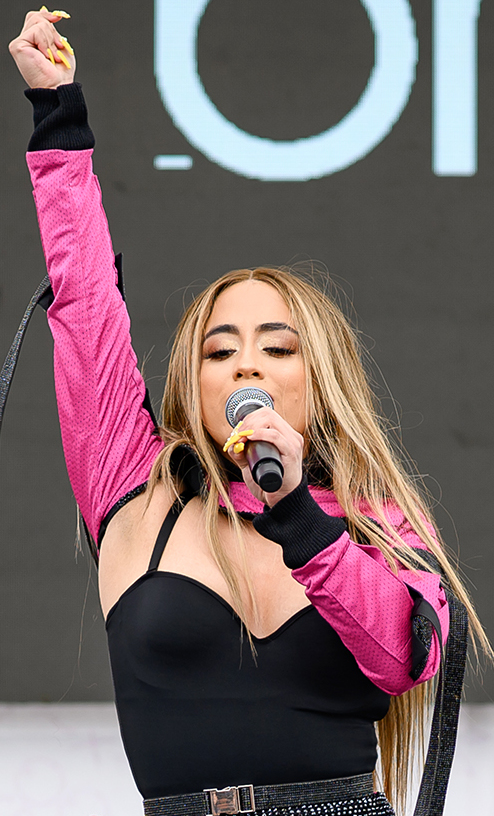 Ally Brooke performing live at the Wango Tango Village in Dignity Health Sports Park in Carson, California, on Saturday, June 1, 2019.